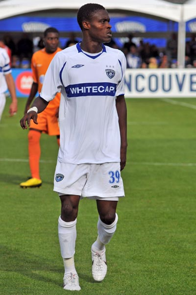 Photo of soccer player, Gershon Koffie. Wilson Wong photo.